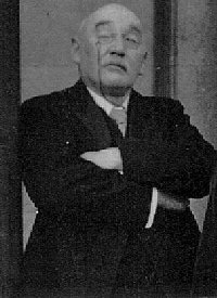 John Sampson Irish linguist, the scholar of William Blake